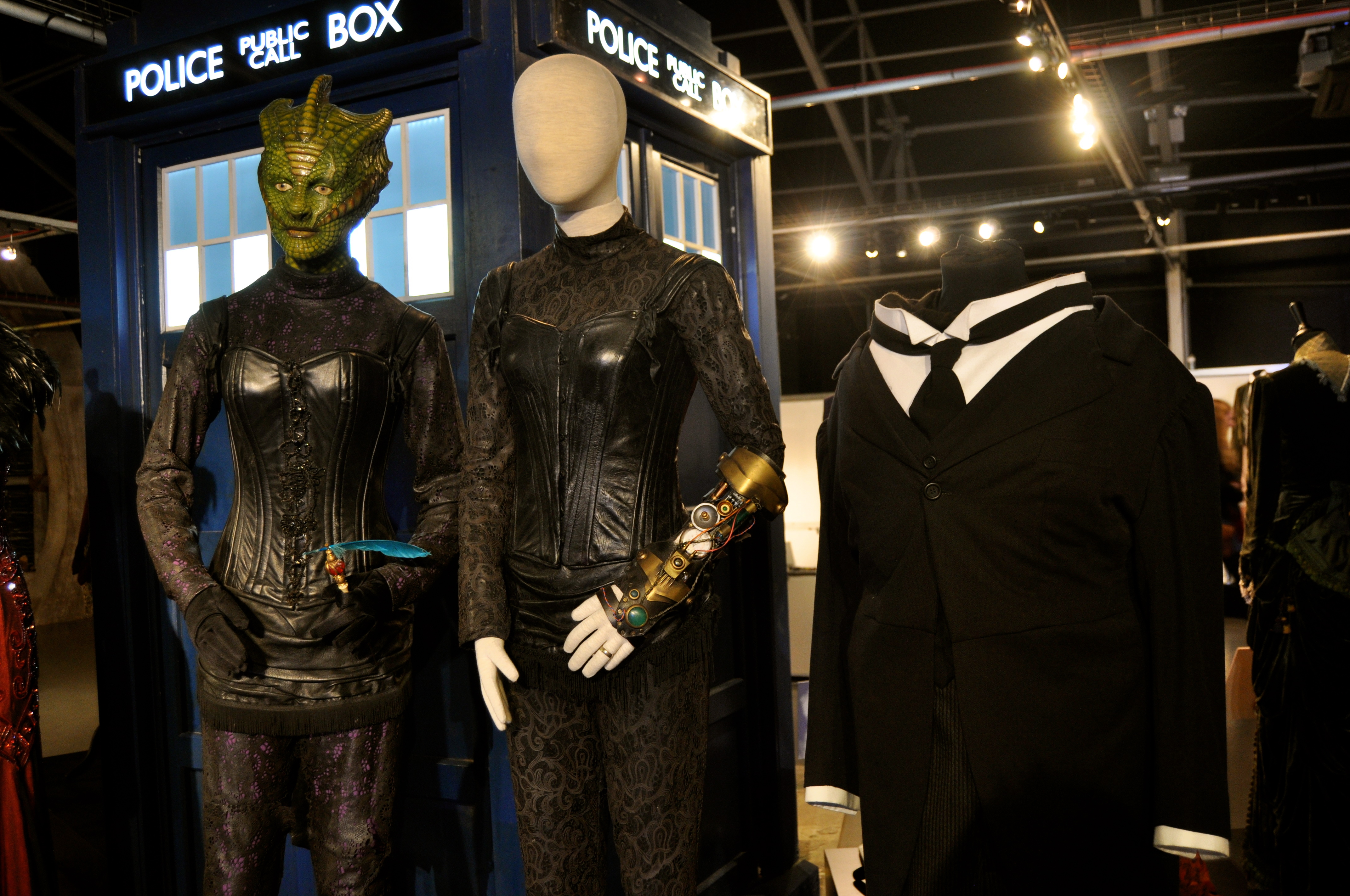 DWE Cardiff Bay, Port Teigr November 2016 Doctor Who Experience